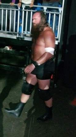 Depicted person: Mike Knox – American professional wrestler